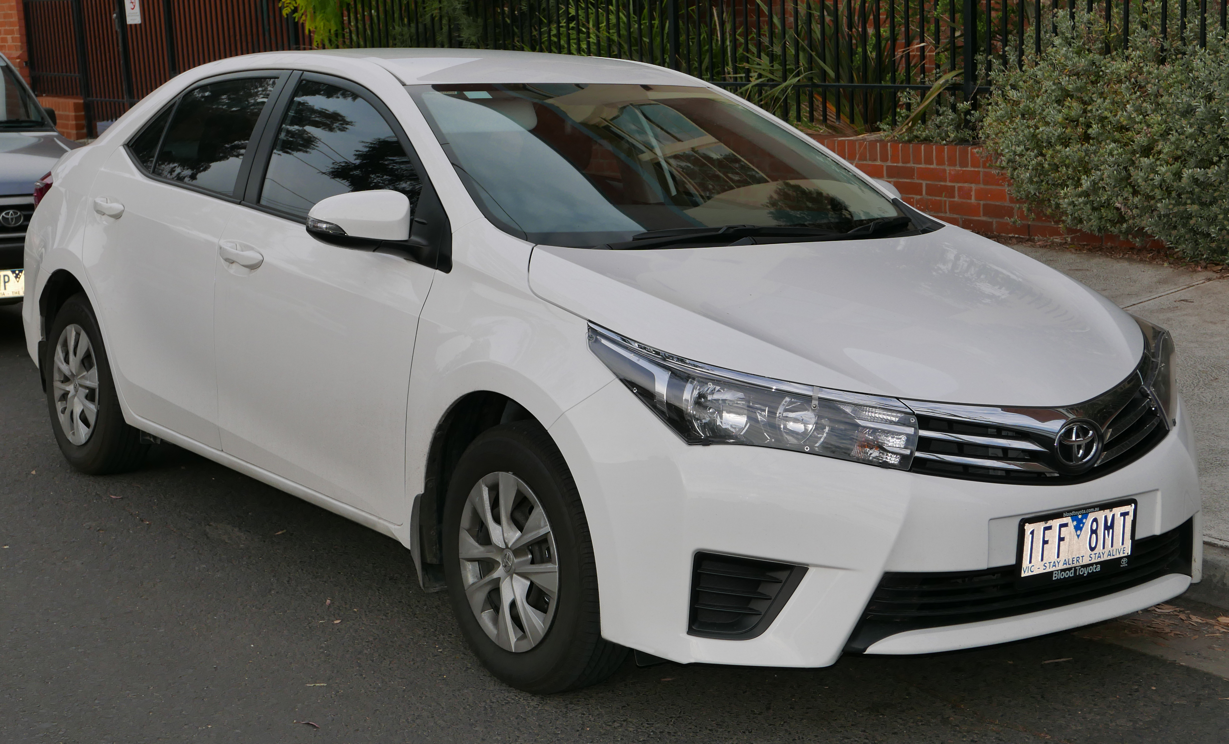 2015 Toyota Corolla (ZRE172R) Ascent sedan. Photographed in Brunswick, Victoria, Australia. Vehicle registration enquiry results Jurisdiction Victoria Registration 1FF8MT Chassis code MR053REH205276005 Engine code 2ZRX516341 Compliance date 2015-06 Year of manufacture 2015